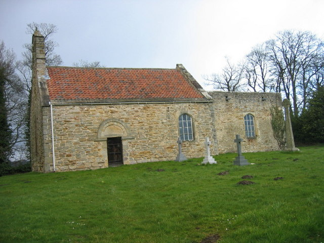 Croxdale Hall Medieval Church (early 12th Century), County Durham